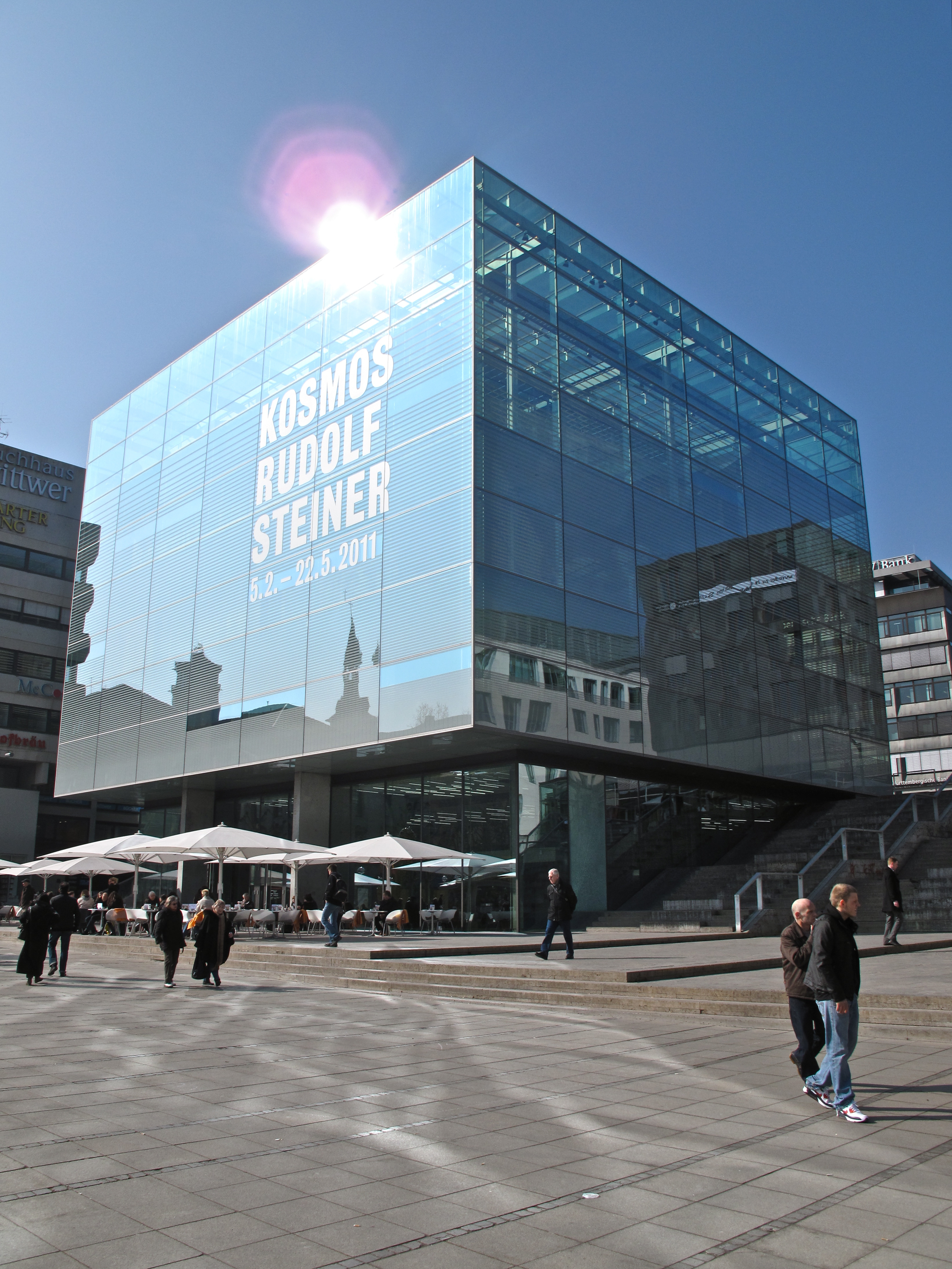 The Kunstmuseum Stuttgart at the Schlossplatz in the city centre of Stuttgart.